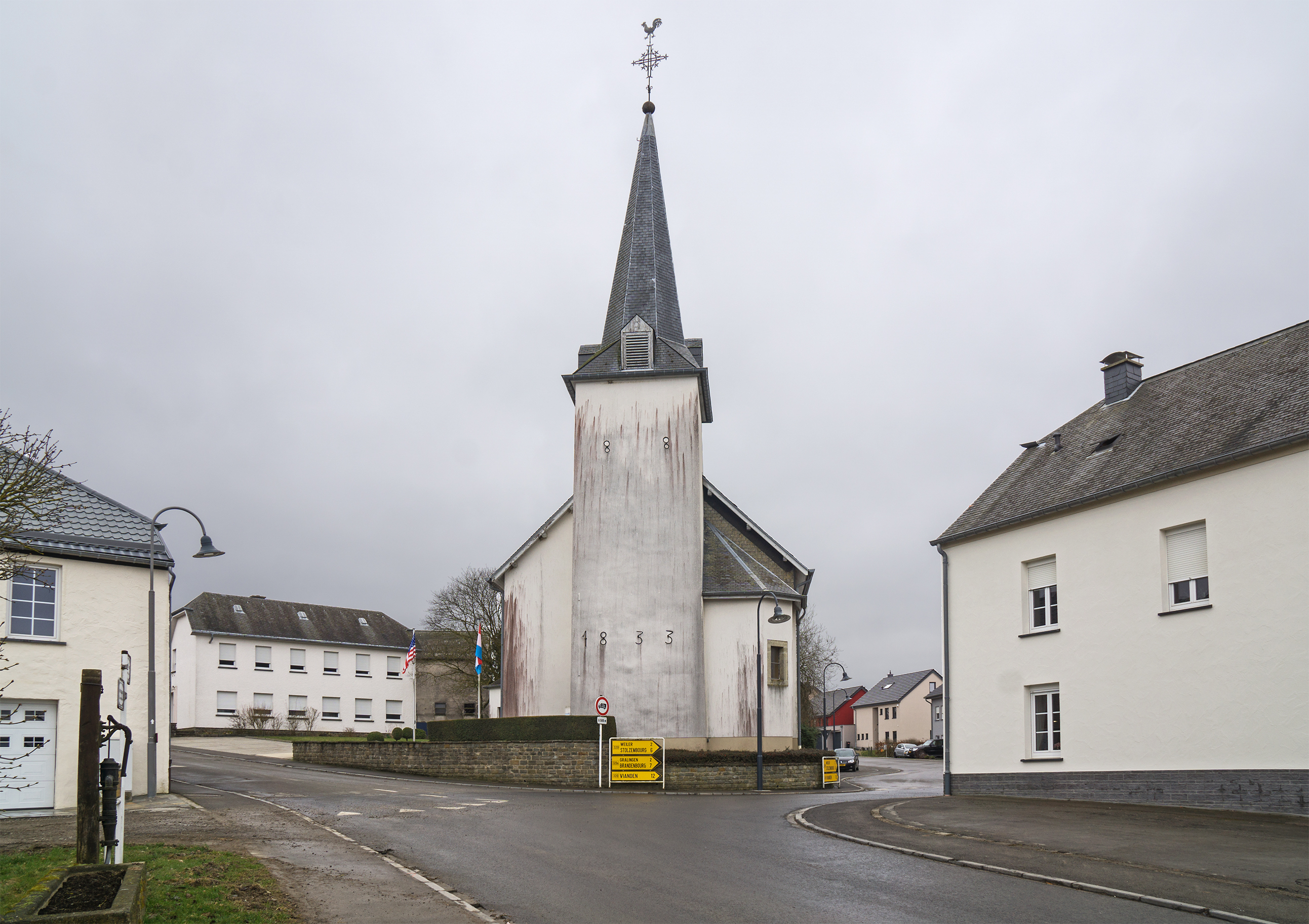 Church of Merscheid in the centre of the locality